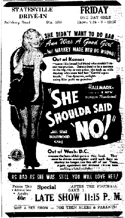 Advertisement for "She Shoulda Said 'No'!" from Reefer Madness Film / anti- medical marijuana